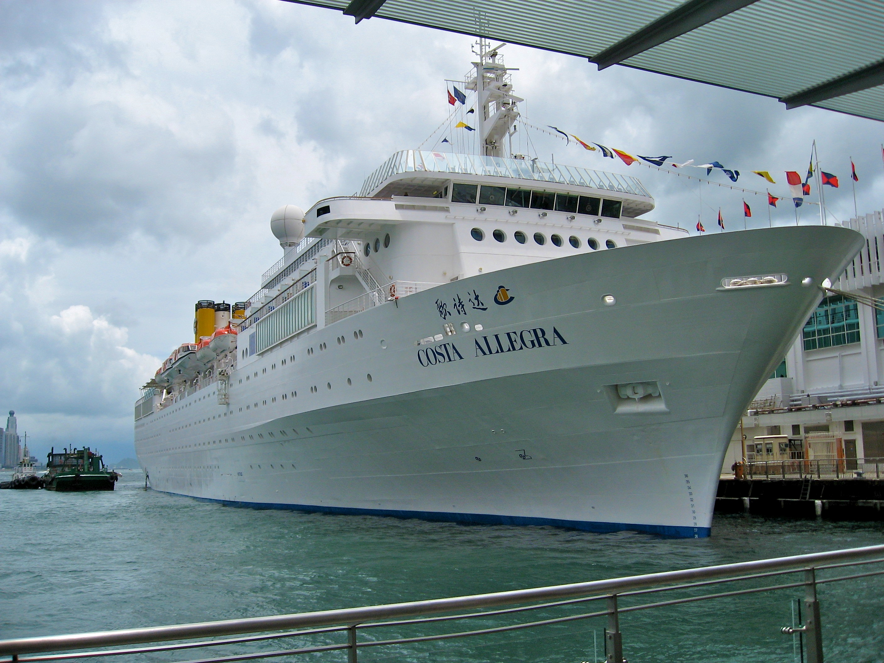 Costa Allegra - Star Ferry Harbor, Hong Kong